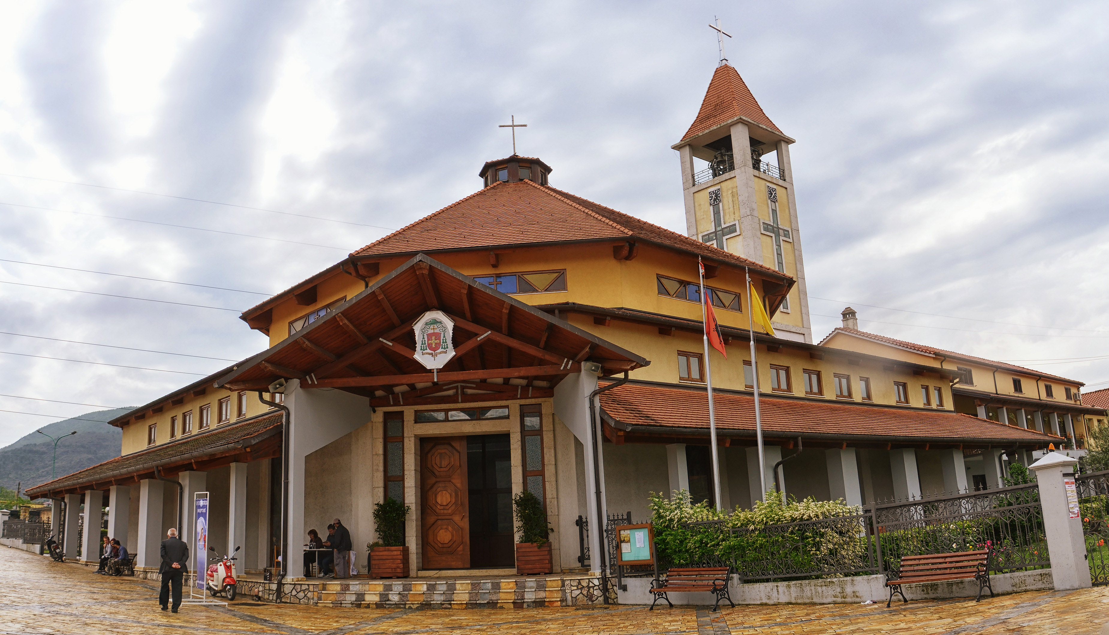 The Mother Teresa Cathedral (Katedralja Nënë Tereza) in Vau i Dejës, Albania